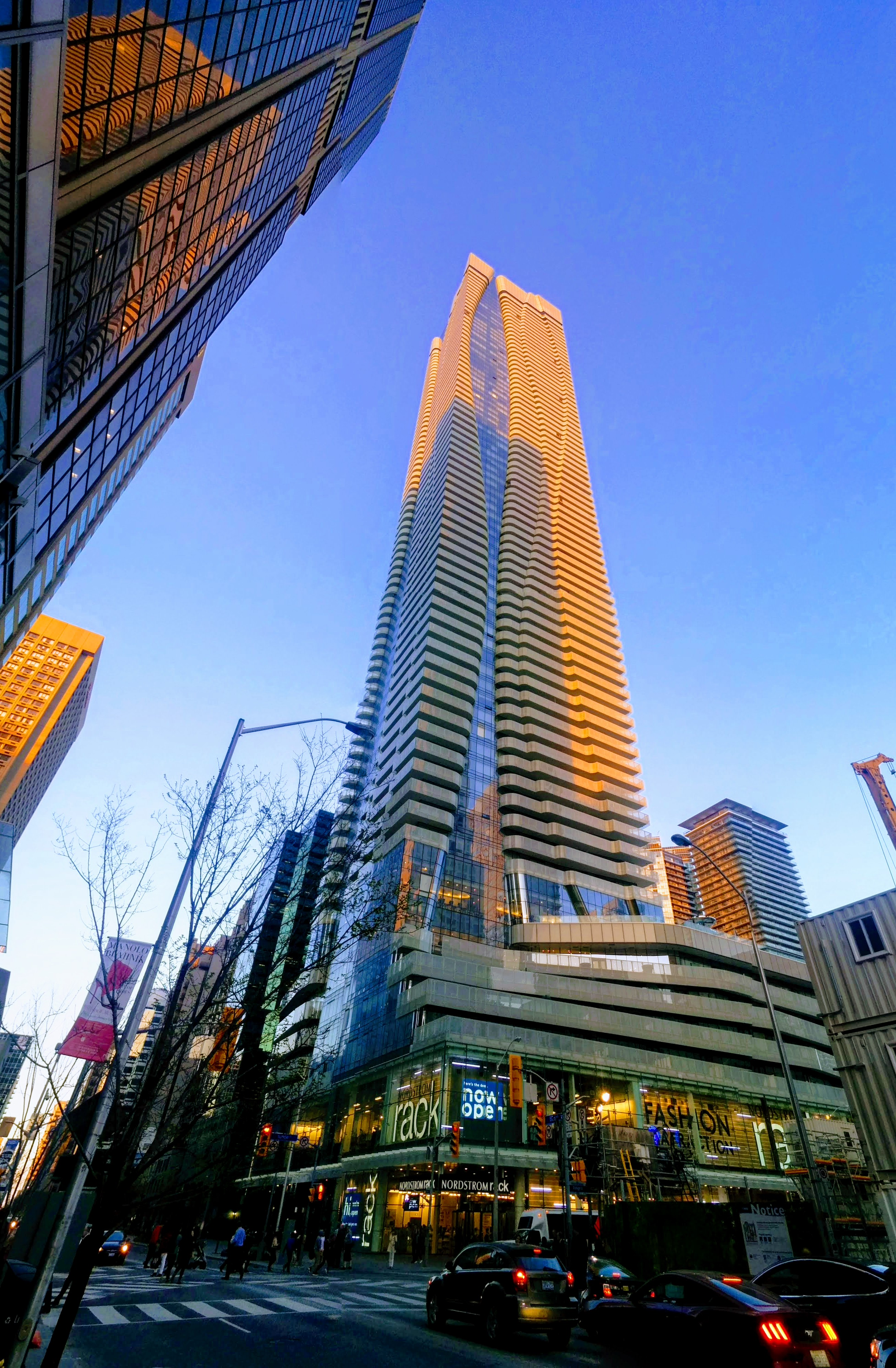 View of One Bloor East in Toronto from north-west